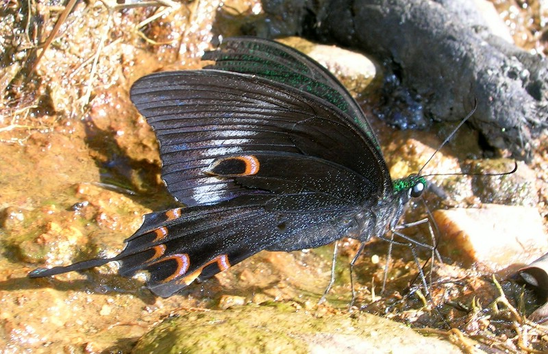 Papilio paris , Paris Peacock, butterfly, from Talakaveri, Coorg, India